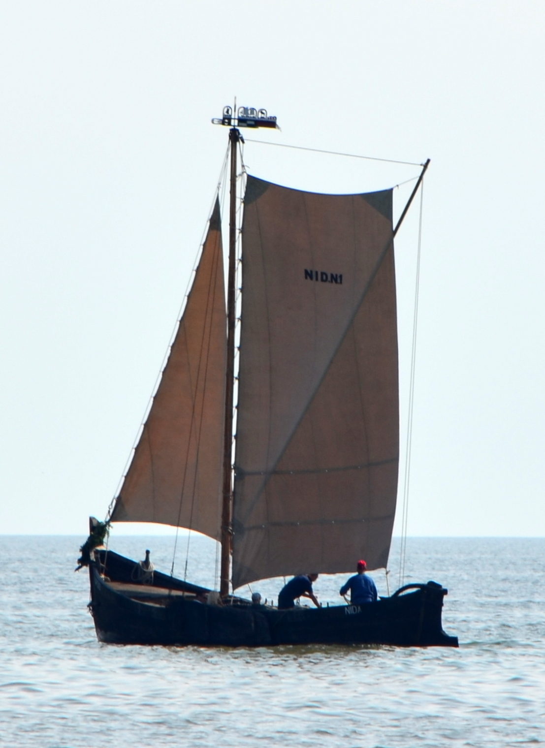 Kurenkahn boat in Curonian lagoon, Nida, Lithuania